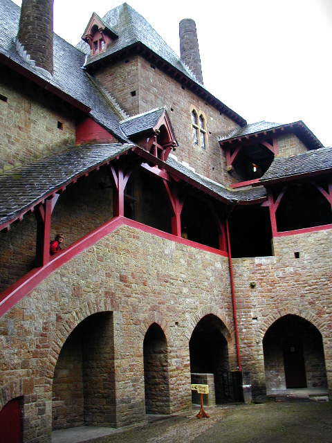 Castell Coch